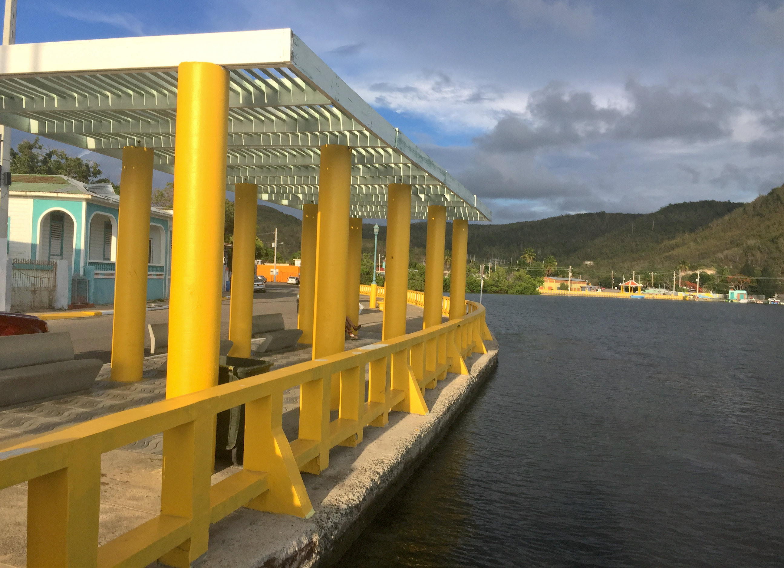 Waterfron of Guánica, Puerto Rico